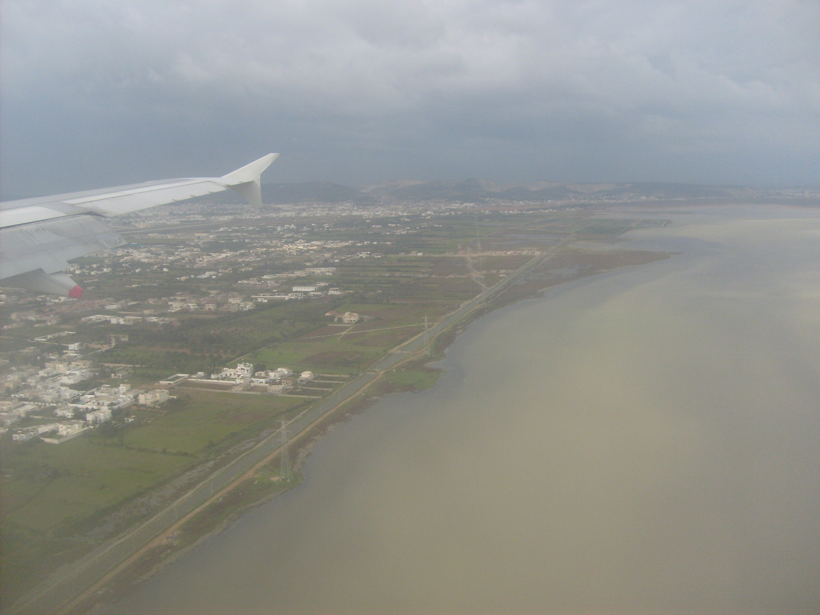 Sebkha Ariana and City Choutrana, Tunis